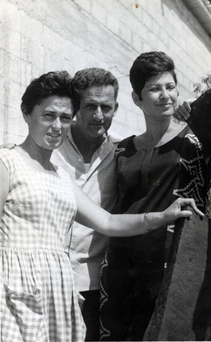 Photograph